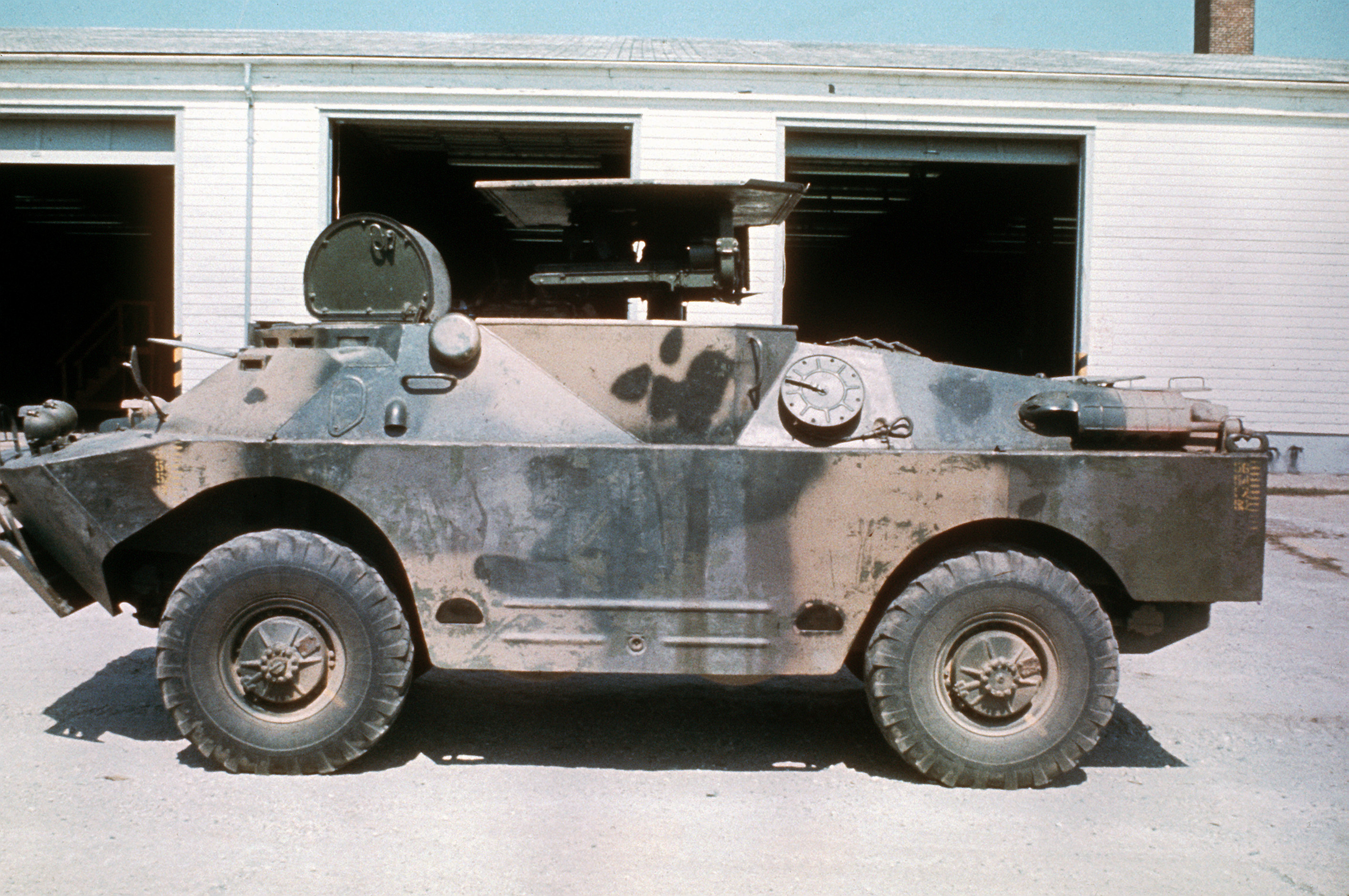 Left side view of a Soviet-made 9P122 Malyutka tank destroyer.